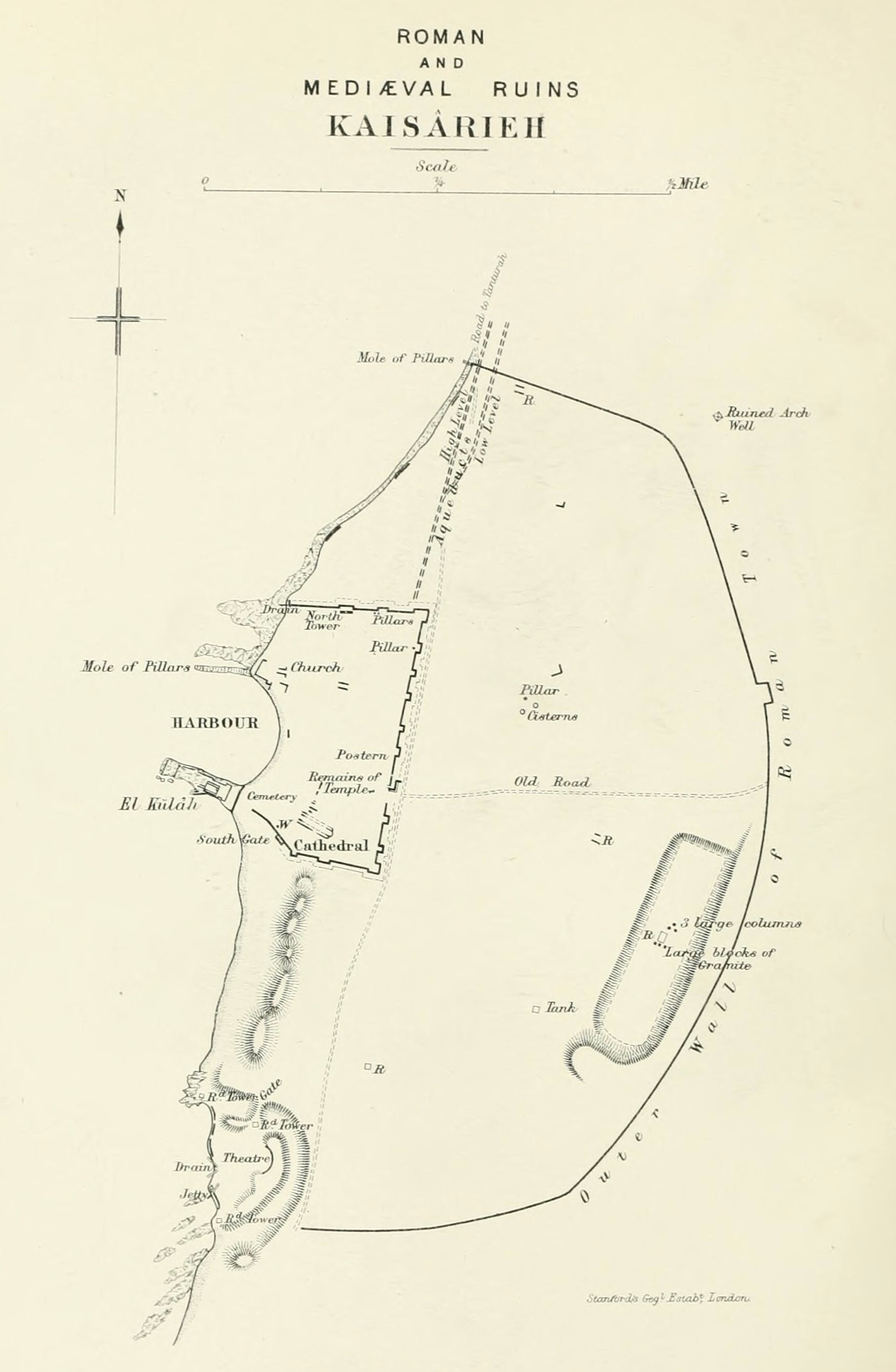 Ceasarea from the 1871-77 Palestine Exploration Fund Survey of Palestine